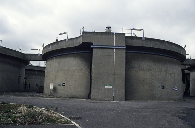 Beckton STP: Sludge Digestion Tank The sludge from the 1481890 is combined with that of the 1481916 in these Digestion tanks. Here micro-organisms break down the sludge and greatly reduce the solid content. The final sludge is then disposed of 1481952. The liquid content can be returned to the beginning of the cycle. This process also generates Methane which is used to drive a turbine to supplement the power supply to the plant.